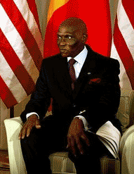 Picture of Abdoulaye Wade.